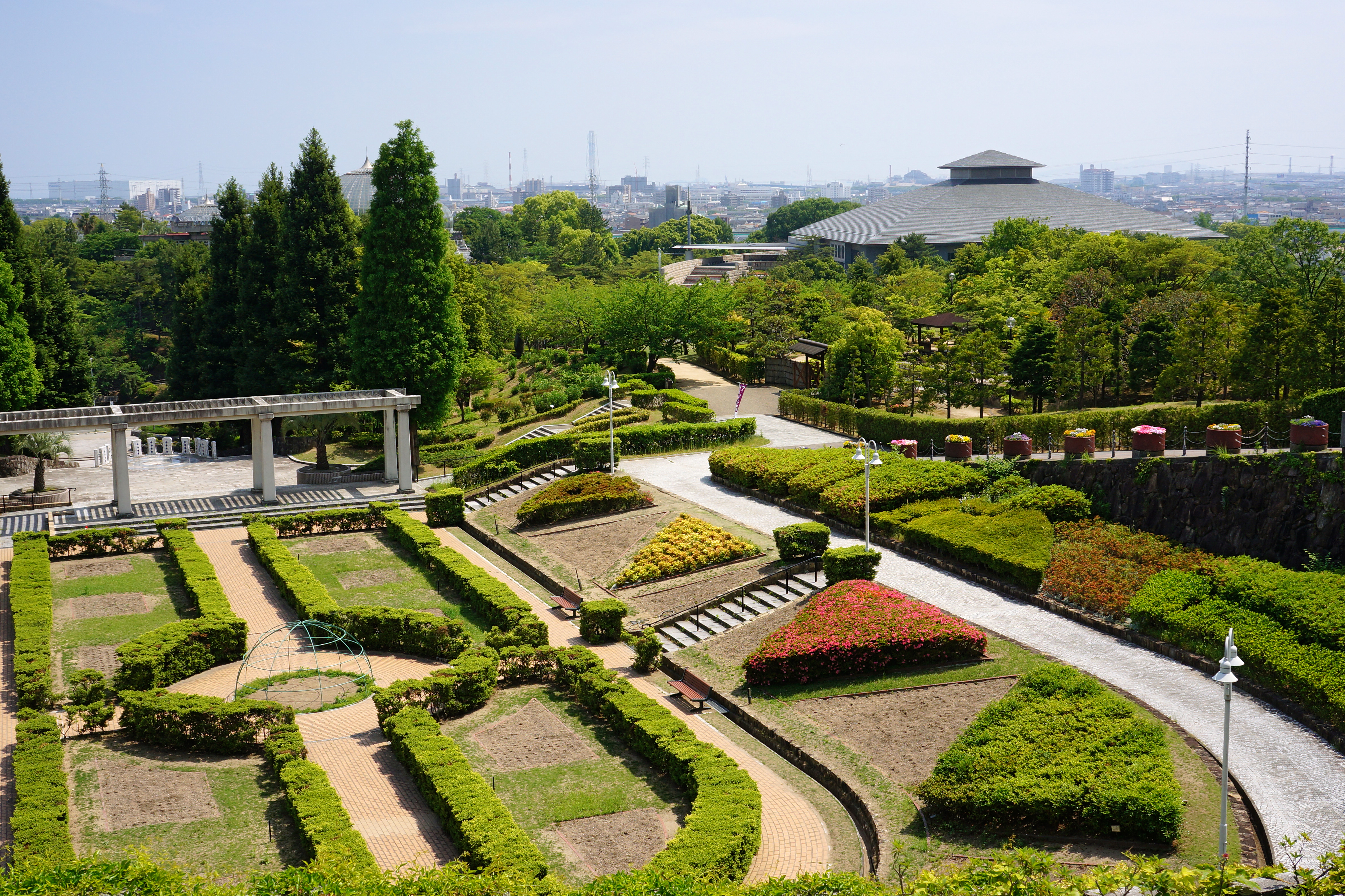 Tegarayama Central Park in Himeji, Hyogo prefecture, Japan.